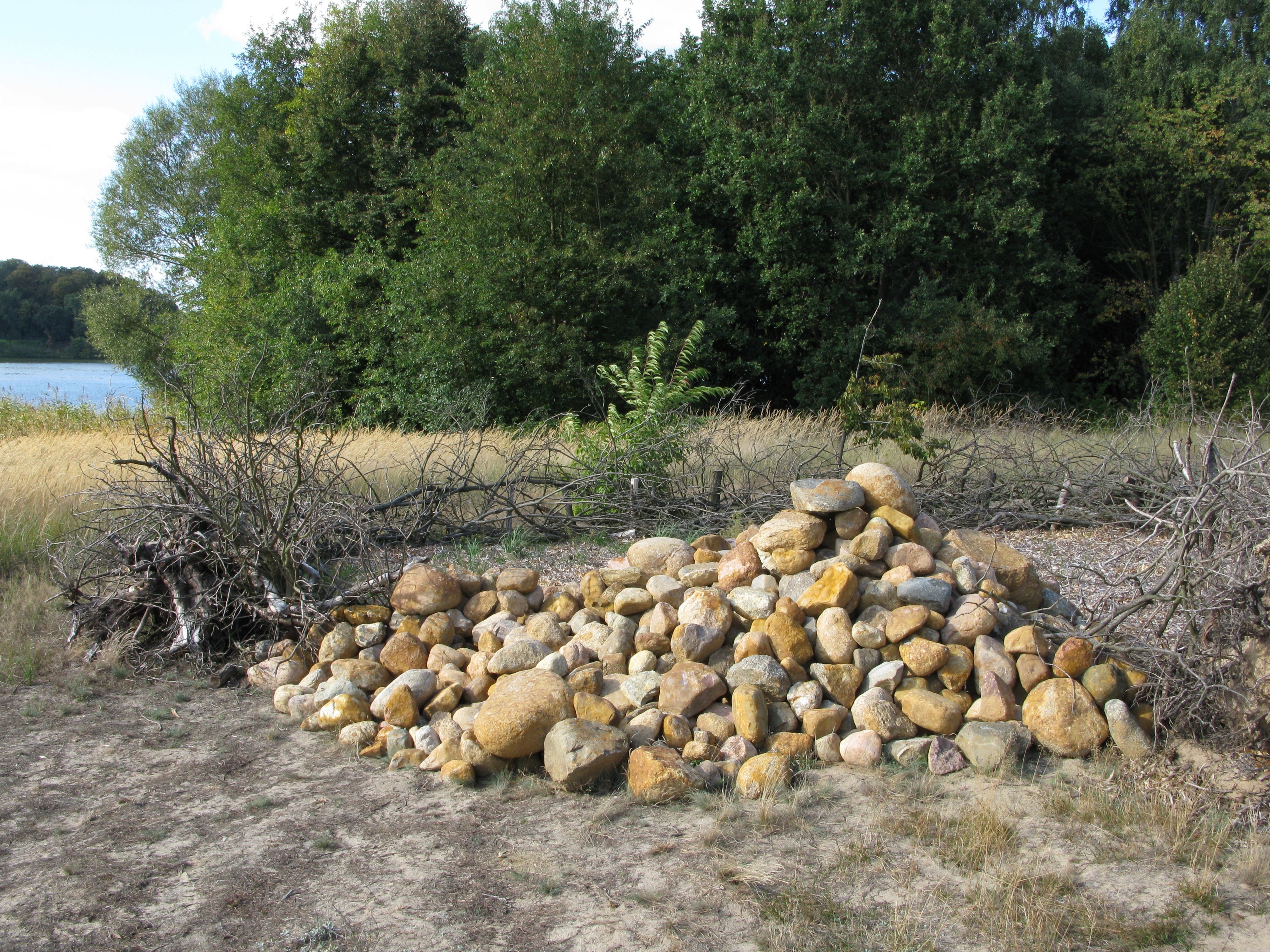 Clearance cairn at "Sacrower See und Königswald" nature reserve (Potsdam).